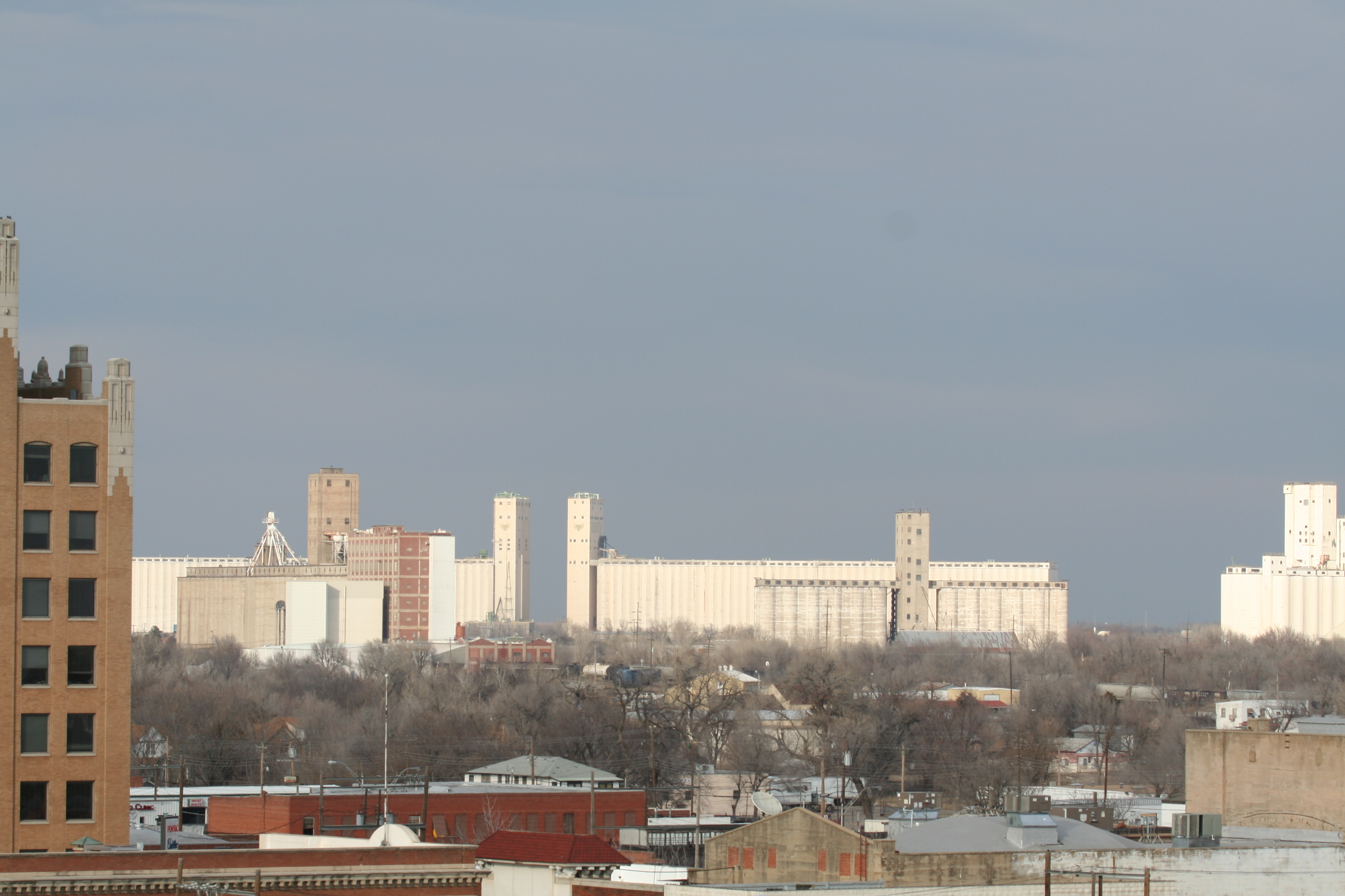 Some of the grain storage in Enid